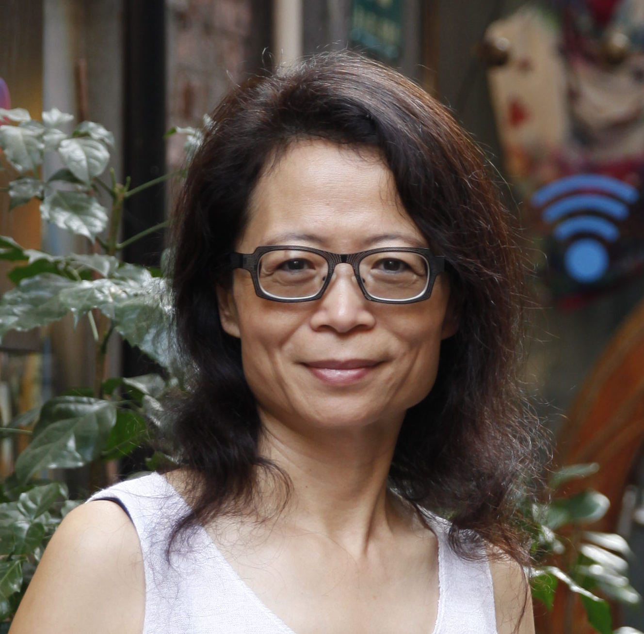 Ying Zhu, Chinese Media Scholar, Head Shot for Wikipiedia